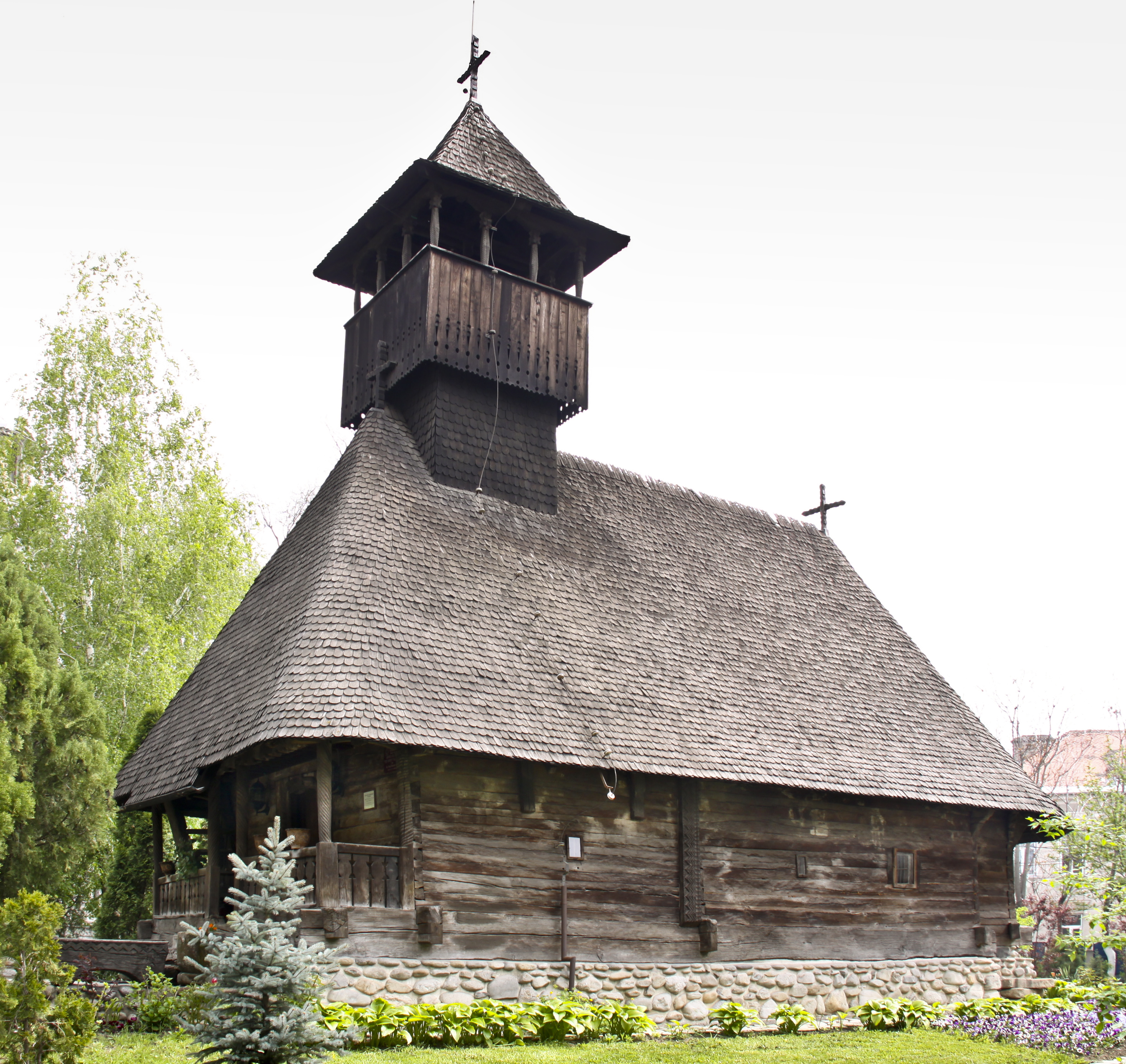 Craiova, Dolj county, Romania, the wooden church at the Mitropolitan seat, brought from Gorj county: South-West.